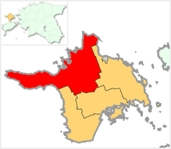 Location map of Kõrgessaare Commune, Estonia. This image was created by Senzeichi.